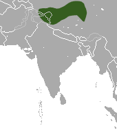 Ladak Pika (Ochotona ladacensis) range